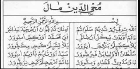 This is the example of Arabi-Malayalam writing method